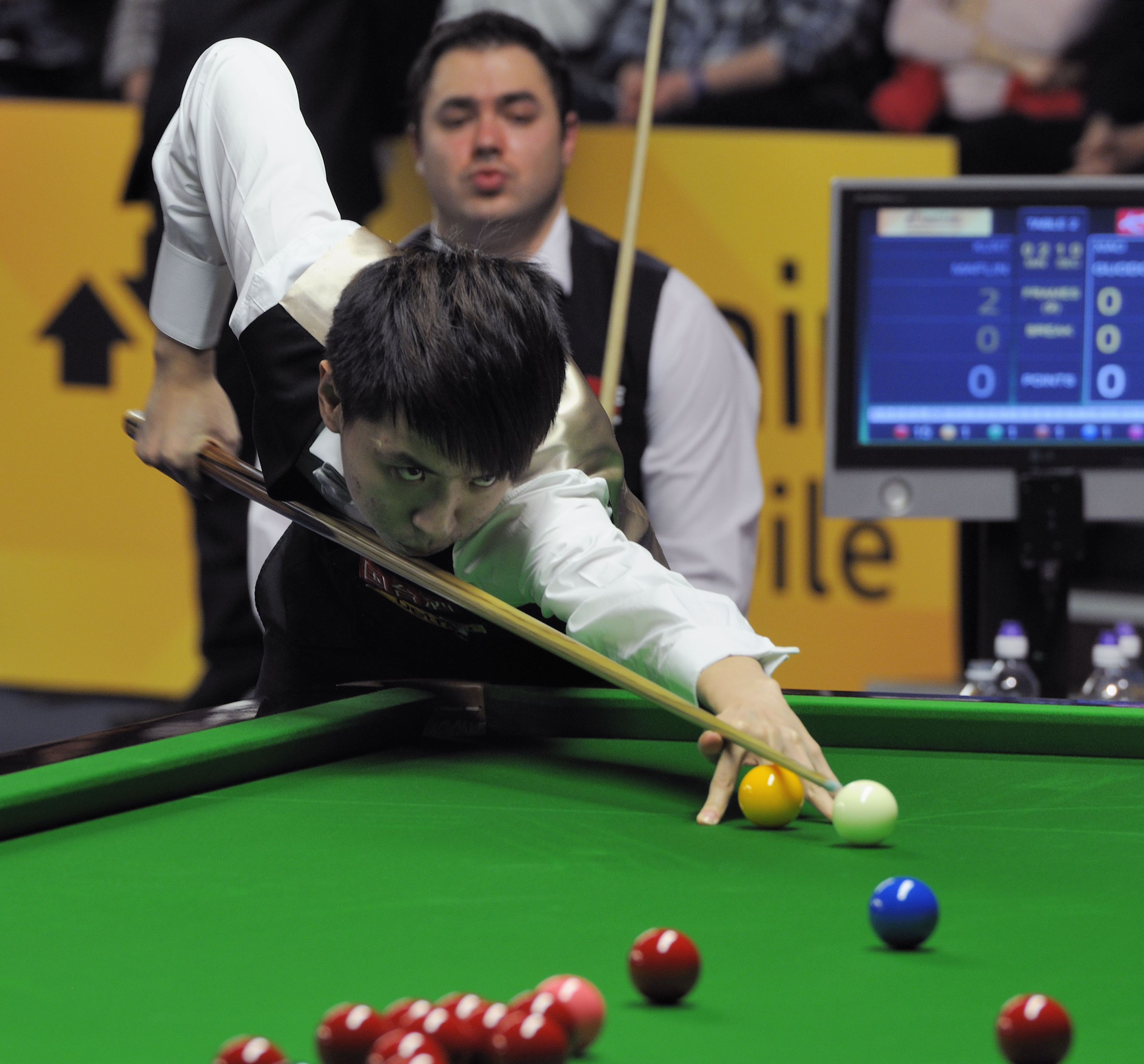 Picture taken in Berlin during the Snooker German Masters in 2013. Kurt Maflin, Xiao Guodong.